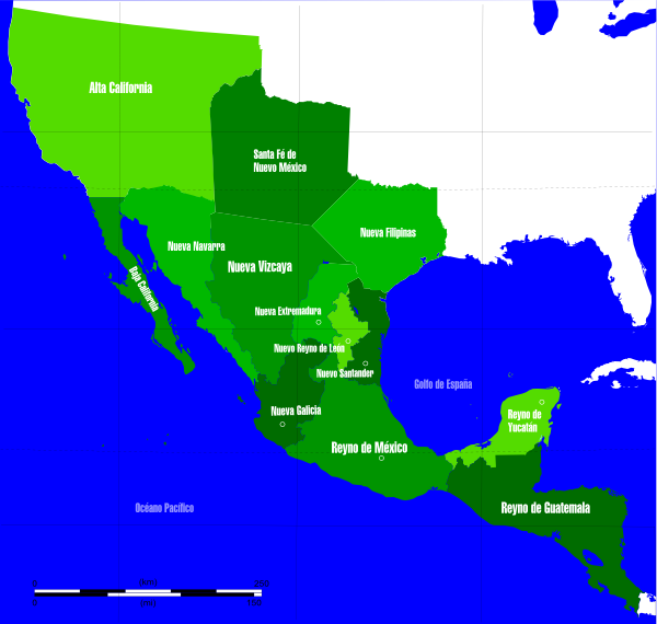 Territorial subdivisions of the Spanish colonial Viceroyalty of New Spain in 1819 (colonial Mexico, California, New Mexico, Texas).